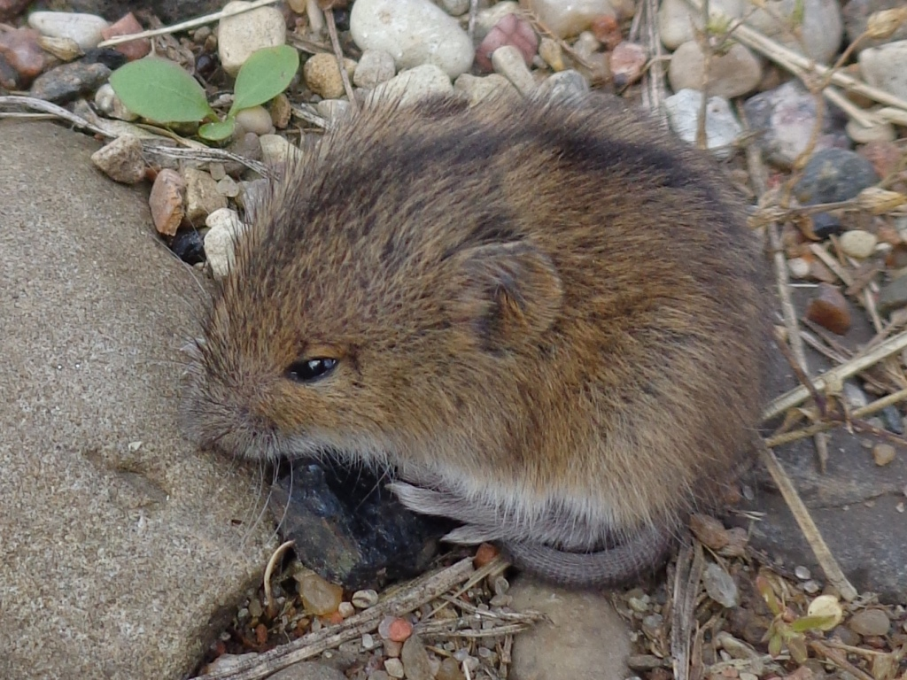 Sicista betulina. Found in Riga town, Latvia